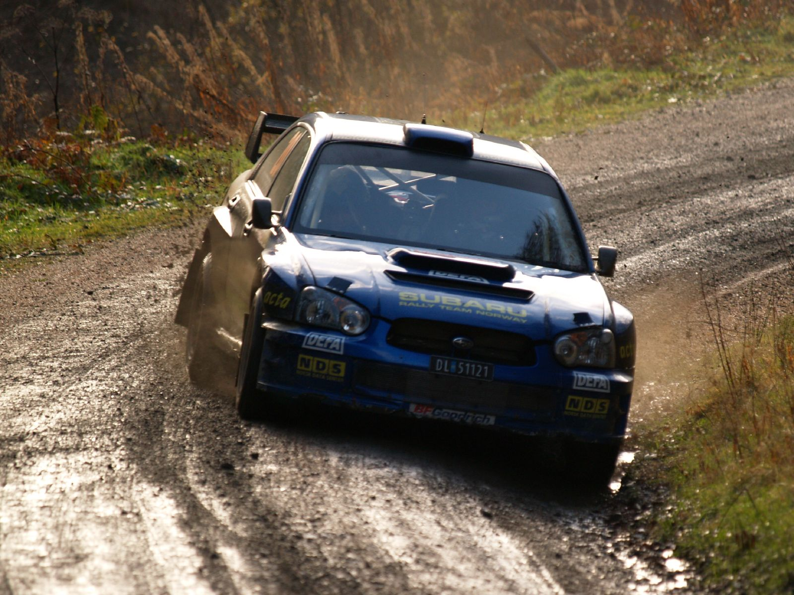 Mads Østberg driving his Subaru Impreza WRC during 2007 Wales Rally GB.